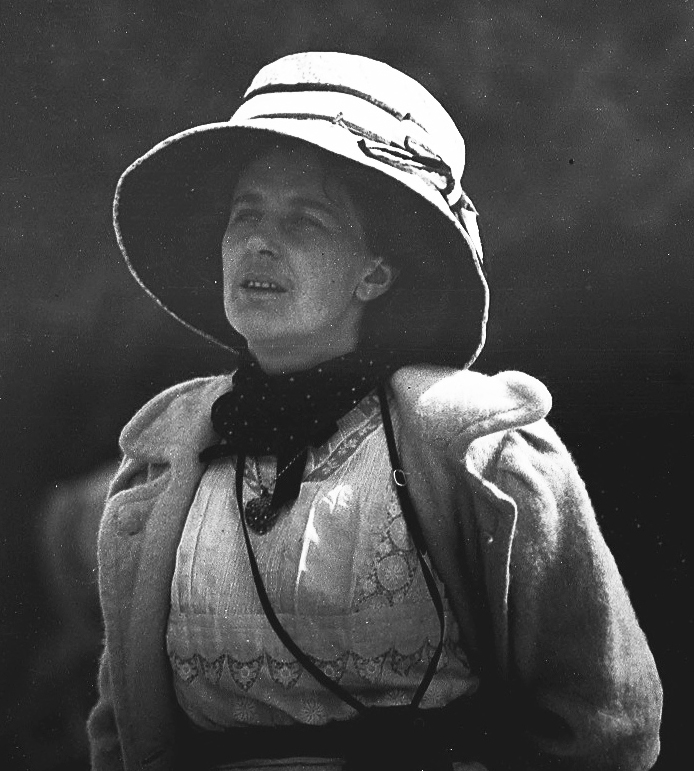 Kathleen Scott on Quail Island in Lyttelton Harbour, New Zealand, 1910.